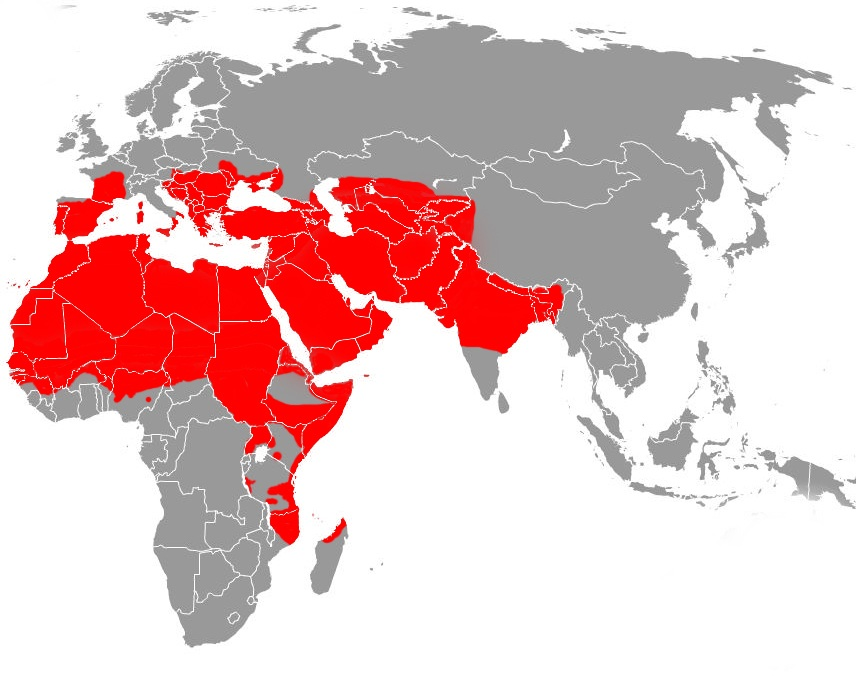 The largest extent all Muslim states across history have reached, since the 7th century A. D. and until the 20th century. Not all regions in the map had fallen under the Islamic rule for a long time, but it represents the most distant points that Islamic armies ever stepped on. Notes: Entire extension in eastern Europe represents the greatest borders of the Ottoman empire. Extension in western Europe is the most distant expansion made by Umayyad armies. In Italia, it represents the largest size of the Aghlabids state. Most of middle Asian expansion is due to the conquests of the Khwarezmid empire, while in India it is mostly due to the rule of Delhi Sultanate. Almost all extension of eastern Africa was made by the Sultanates of Oman during the period of 15-19th centuries, while west Africa was conquered by many small empires and states, most notably: Almoravids, Mali empire, and Ghana empire.